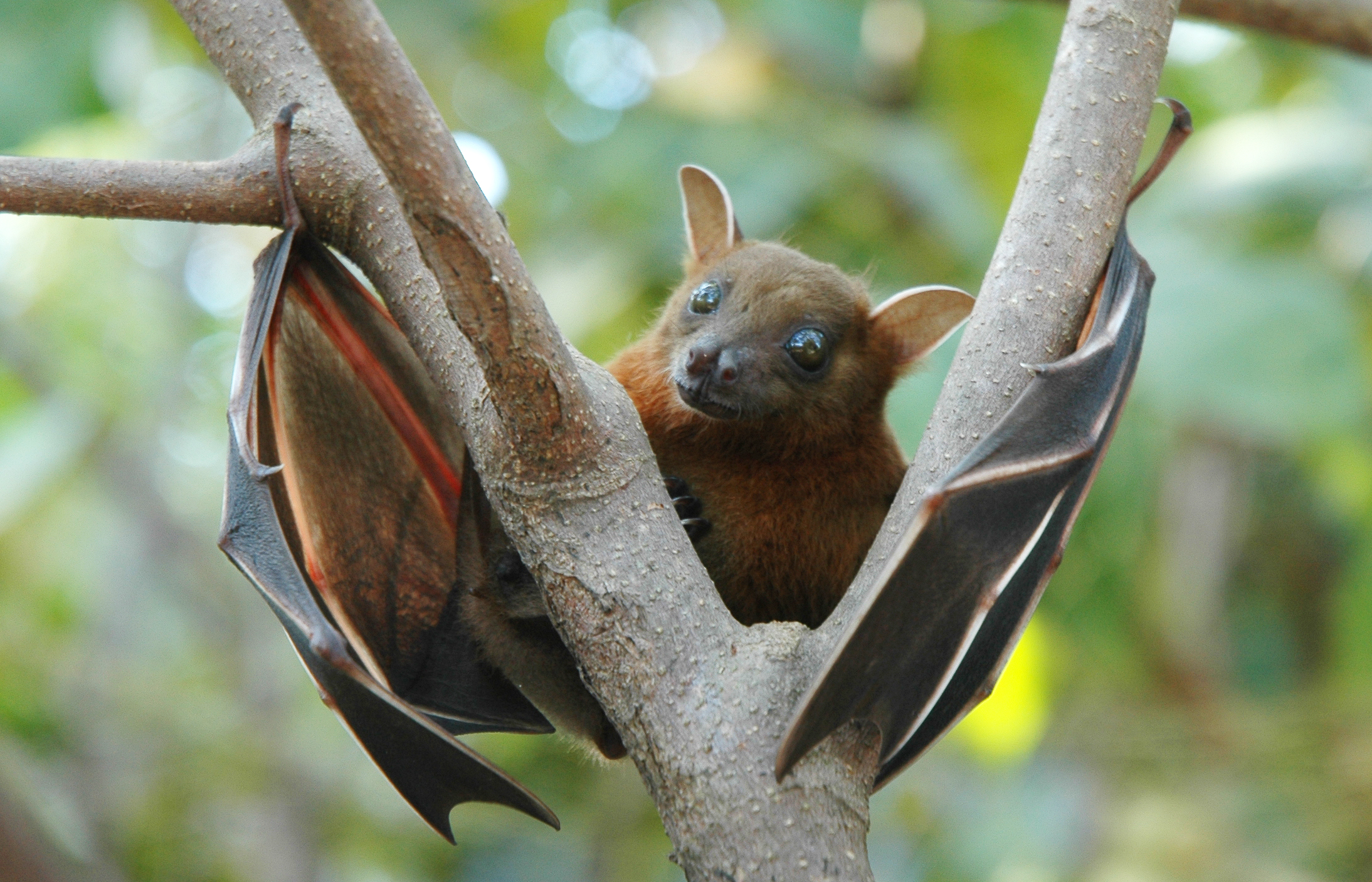 Greater short-nosed fruit bat - photographed in Batticaloa, Sri Lanka in daylight while it was moving branch to branch.